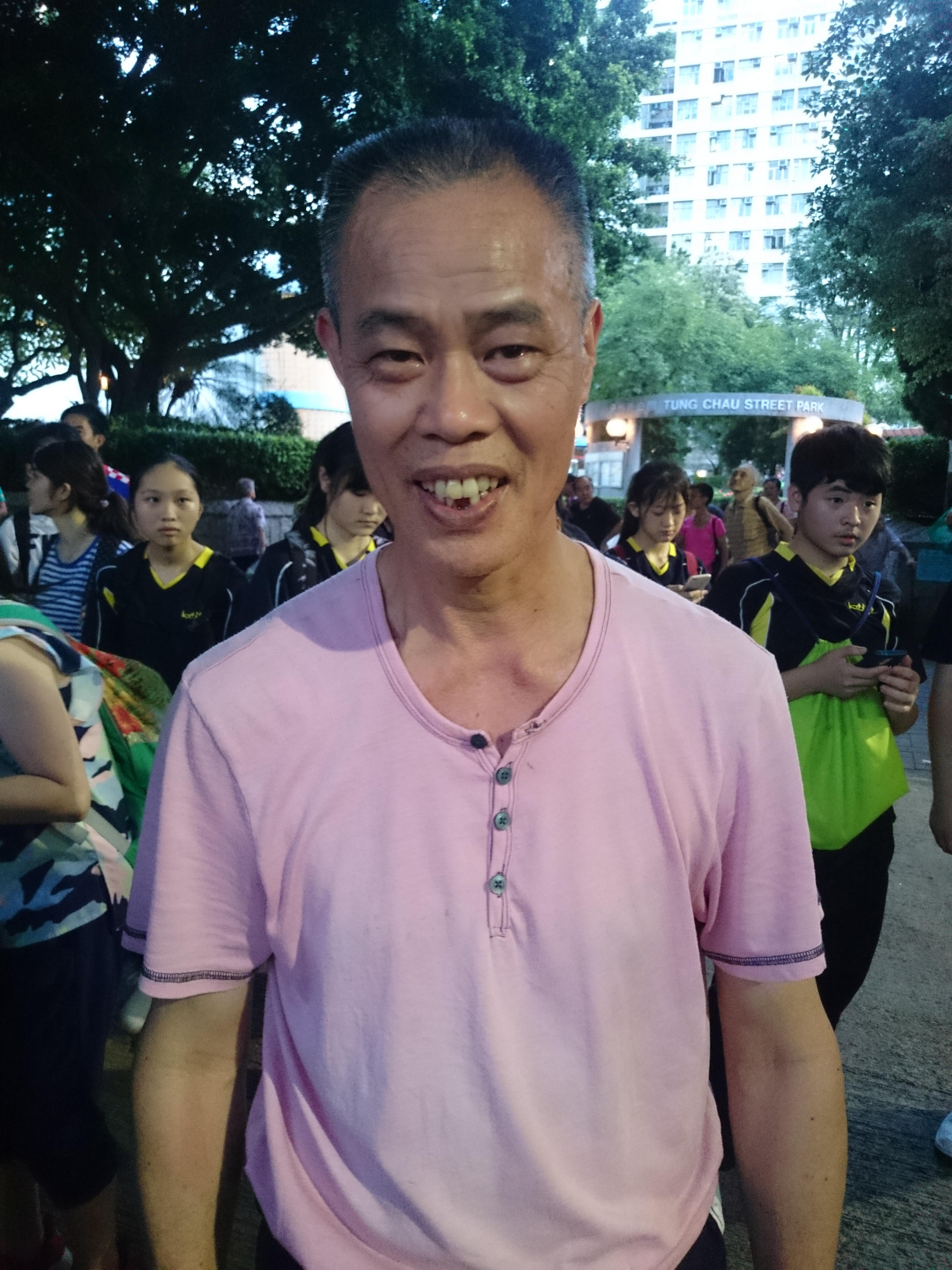 Chan Cheuk-ming in front of Tung Chau Street Park on June 25, 2016 at approximately 7:05 pm